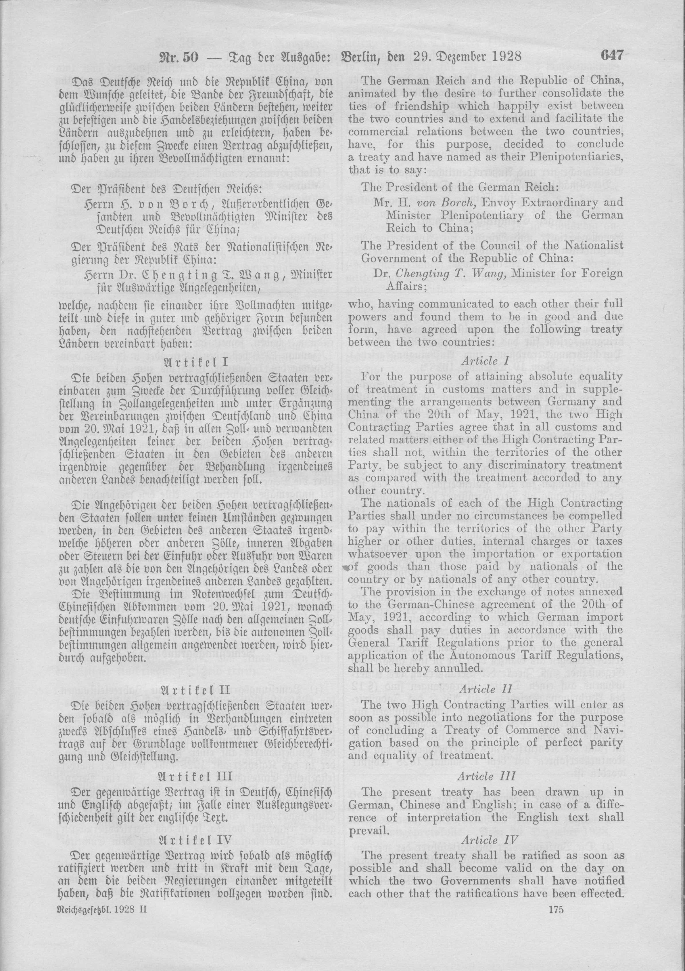 Scan from the Imperial Law Gazette of Germany, 1928, part 2